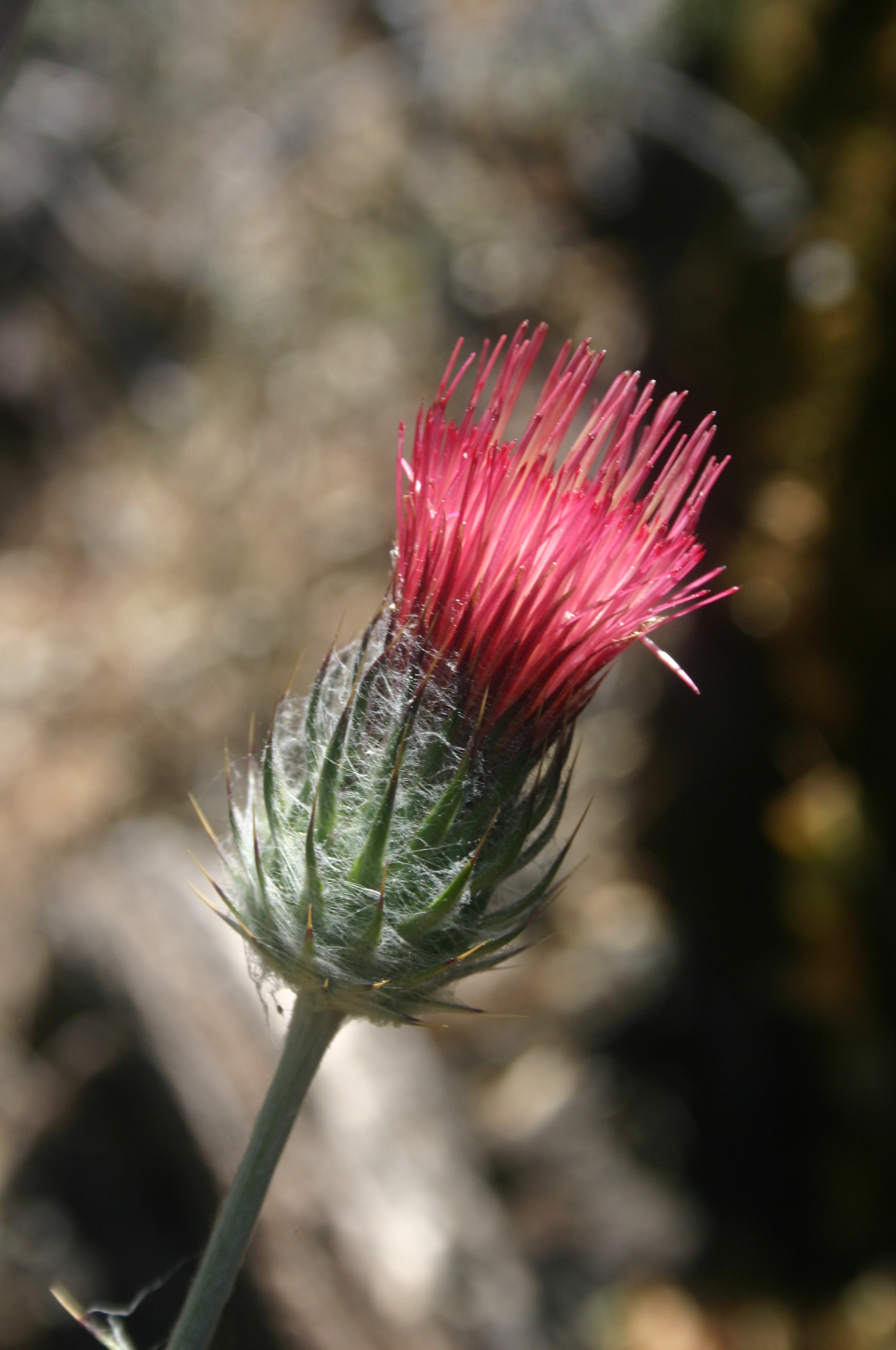 Venus thistle (Cirsium occidentale)